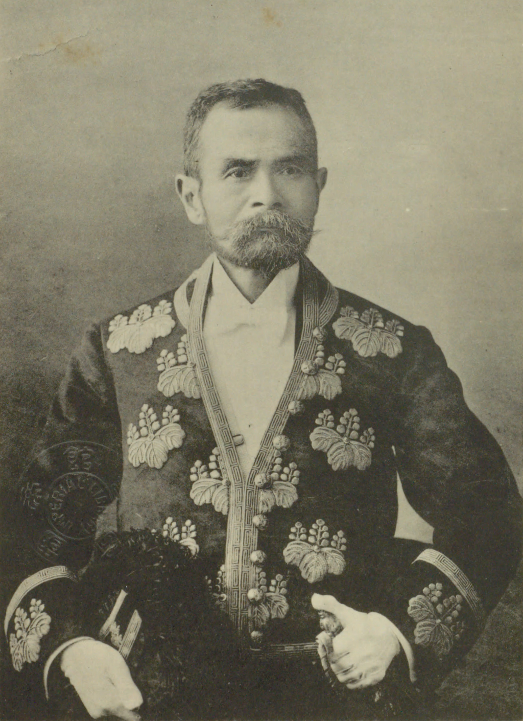 Portrait of Sugita Teiichi (杉田定一, 1851 – 1929)